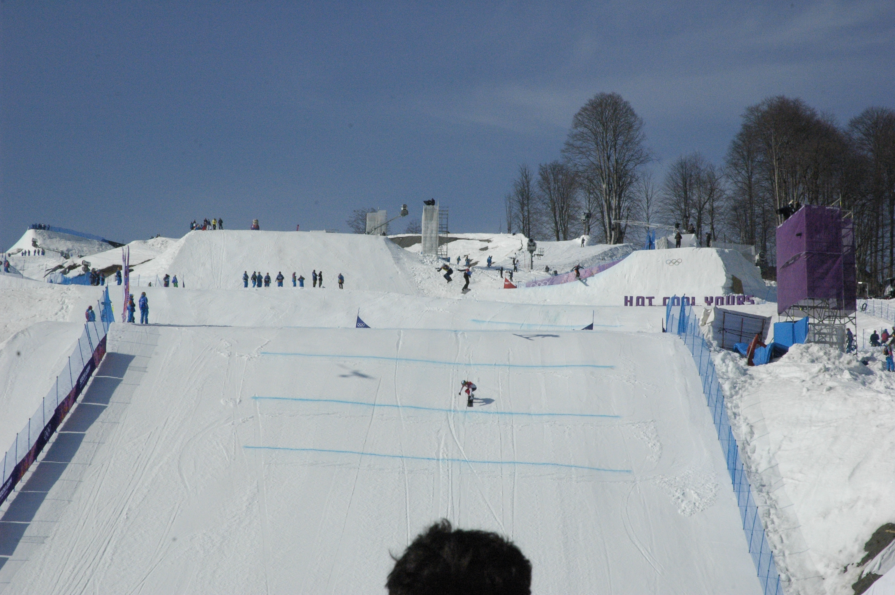 Women's snowboard cross, 2014 Winter Olympics